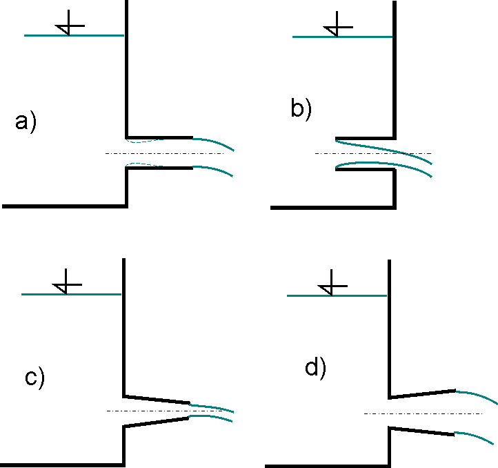 outflow from an orifice - appurtenances